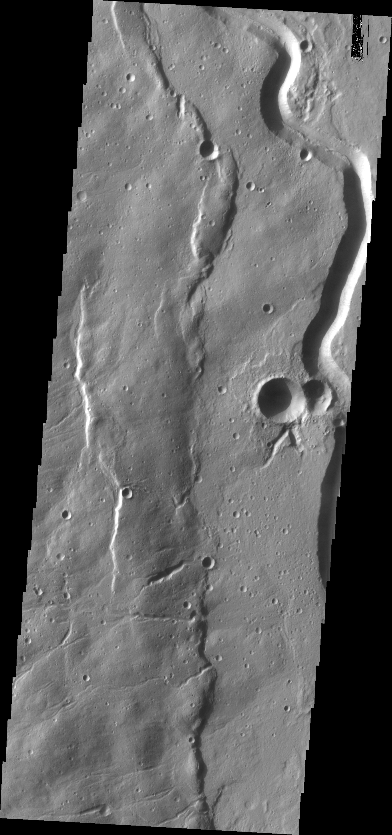 Buvinda Vallis, as seen by themis. Location is 32.4 N and 208 W. Picture is 19.4 km wide. Picture taken with Mars Odyssey's THEMIS. Photo credit NASA/JPL/ASU.